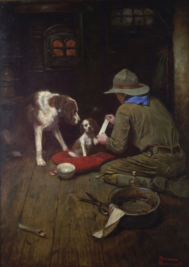 A Red Cross Man in the Making by Norman Rockwell (1894–1978), his first Boy Scouts of America calendar in 1925, originally published in 1918 in The Red Cross Magazine. Retitled A Good Scout when re-used in the 1925 calendar.